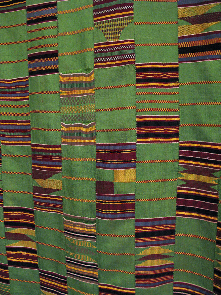 Kente Cloth Probably Ewe, Ghana, c. 1986 Cotton and rayon, plain and supplementary weft-weave Purchase, 1987 (5676.1) Wikipedia Loves Art at the Honolulu Academy of Arts This photo of item # 5676.1 at the Honolulu Academy of Arts was contributed under the team name "fresche" as part of the Wikipedia Loves Art project in February 2009. Honolulu Academy of Arts The original photograph on Flickr was taken by honolulu0919—please add a comment to the original Flickr page whenever a use has been made on Wikipedia or another project. Project galleries on Flickr: this institution, this team